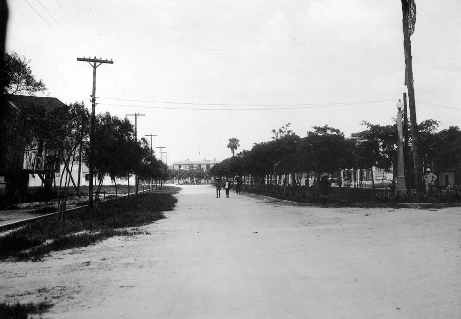 Bai yun Road in Guangzhou, China.